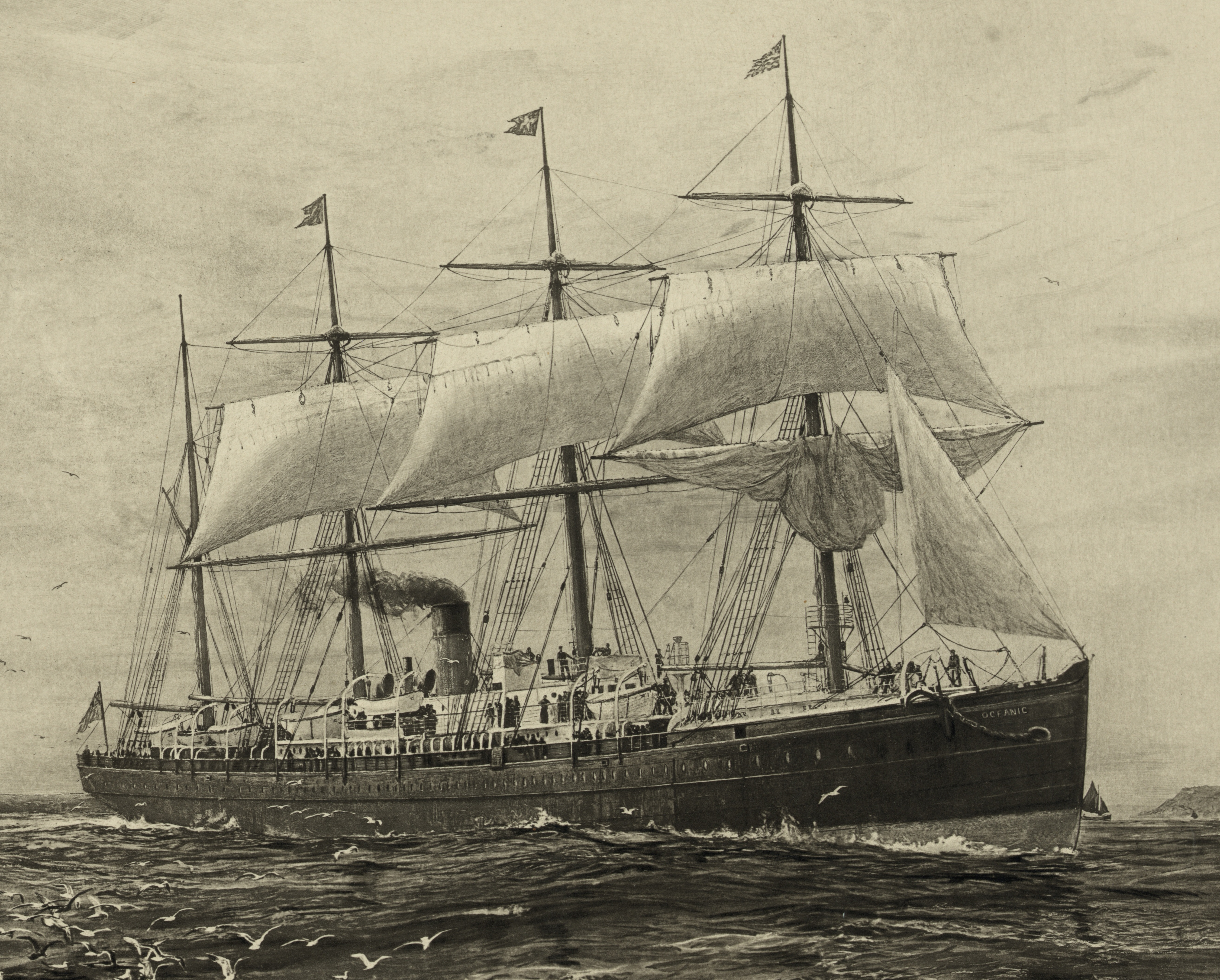 The Oceanic off Queenstown (Cobh, Ireland) on her second homeward voyage from New York, June 12th 1871, by William Lionel Wyllie, 1895. Full caption : Published 1896 by Mssrs Ismay, Imrie & Co 10 Water Street, Liverpool and entered according to the Act of Congress in the year 1896 in the office of the Librarian of Congress at Washington. Copyright Registered. Photogrvured [sic] by Stas Walery. THE "OCEANIC": 3807 Tons. Lenght 420 feet, Breadth 40 ft.9in.3500 I.H.P. Pioneer Steamer of the White Star Line. Off Queenstown on her second homeward voyage June 12th 1871. Length of passage from New York to Queenstown 8 days 7 hours 18 minutes. Signed : W.L. Wyllie 1895.